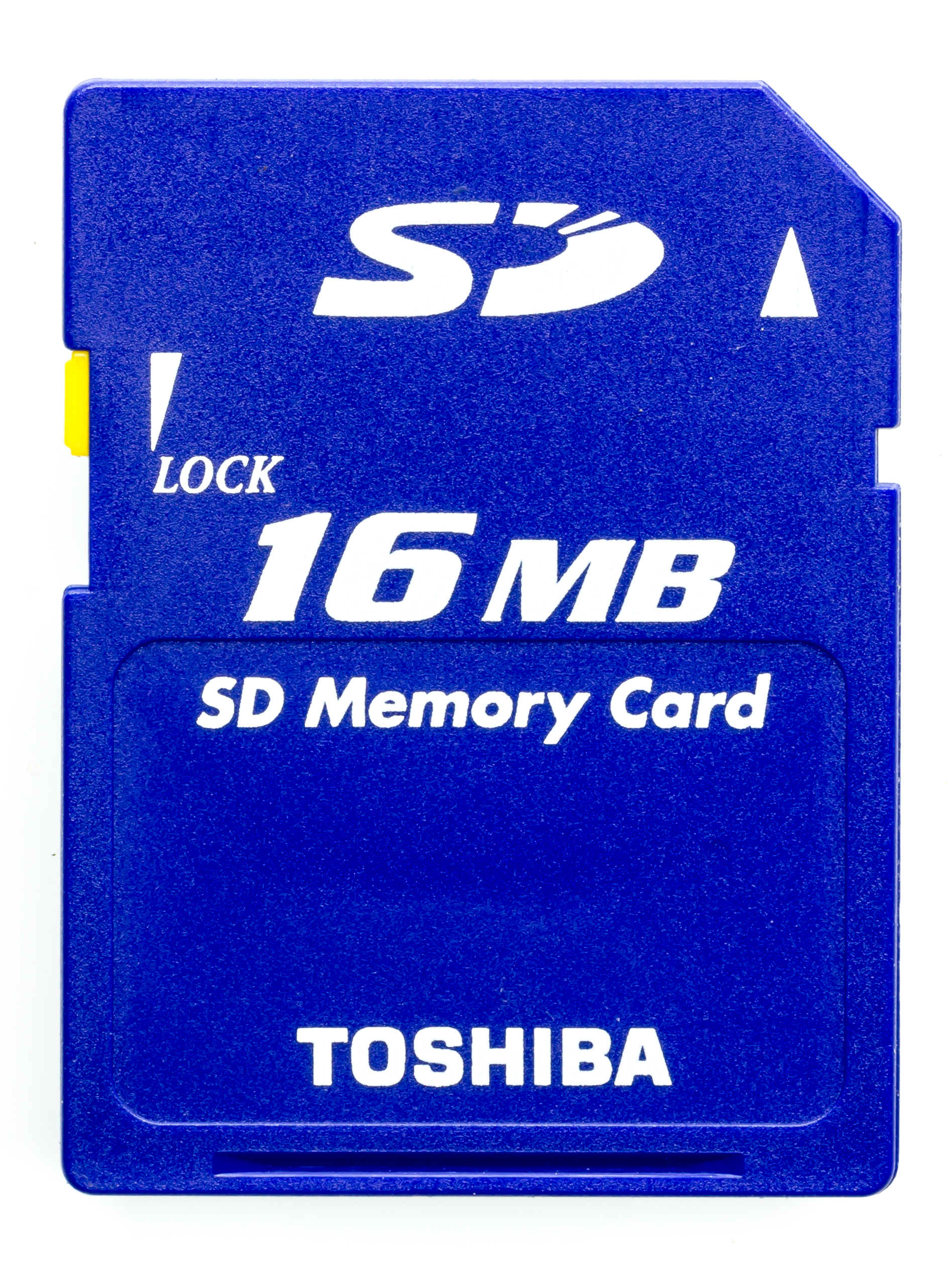 Toshiba 16MB SD Card